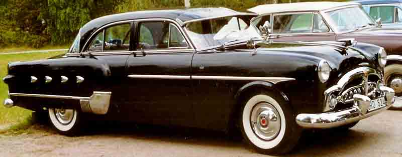 Packard Patrician 400 2552 4-Door Sedan 1952